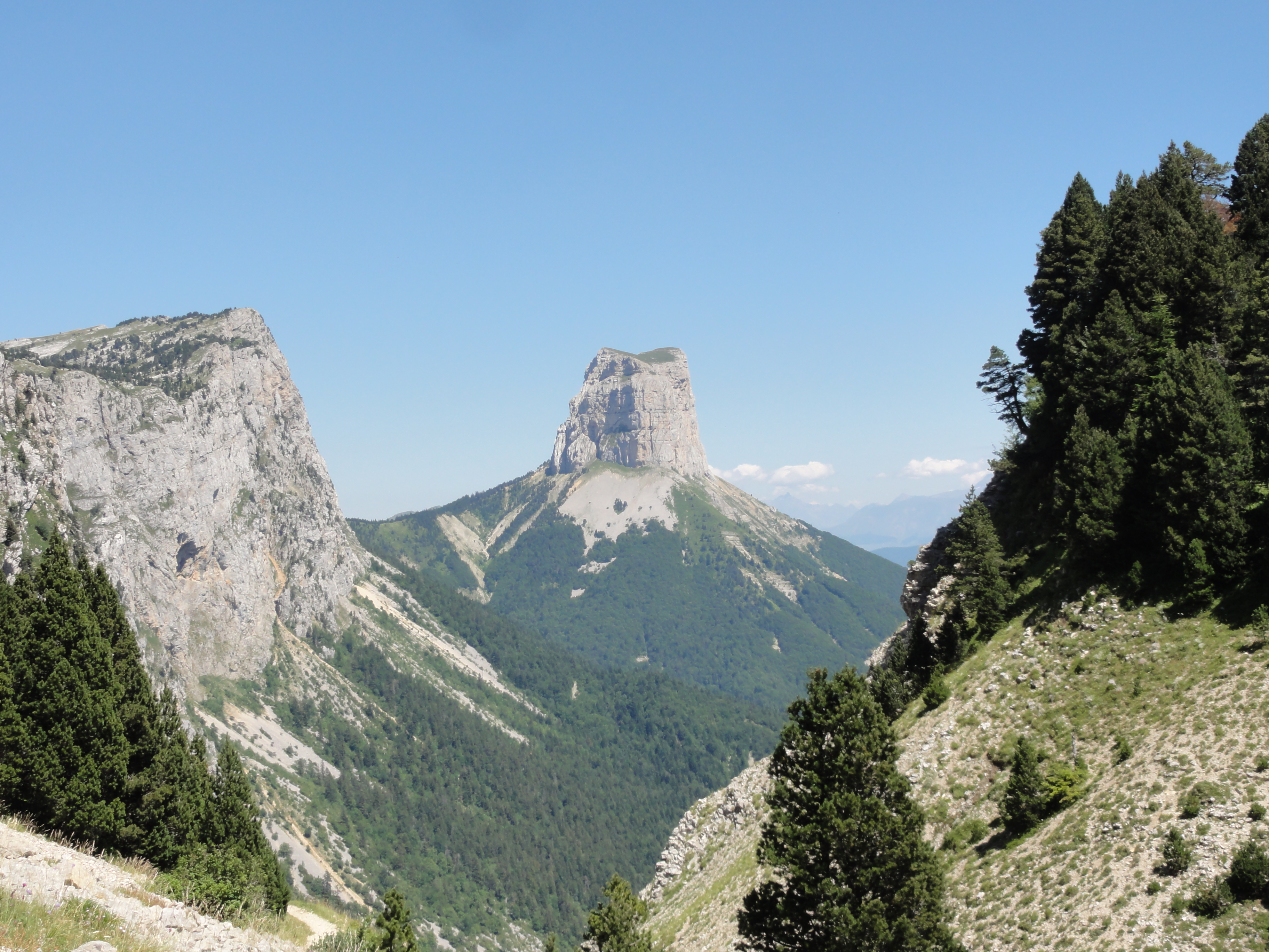 Mont Aiguille from Pas de l'Aiguille